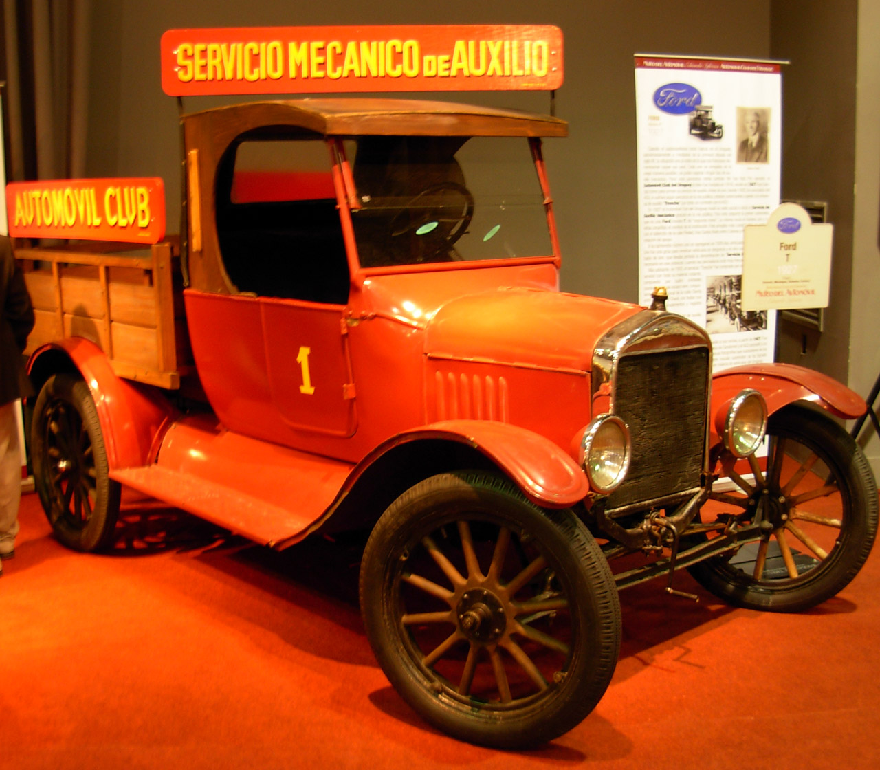 Ford Model T, the first roadside assistance vehicle used by the Automobile Club of Uruguay, shown at the 2012 Montevideo Motor Show.